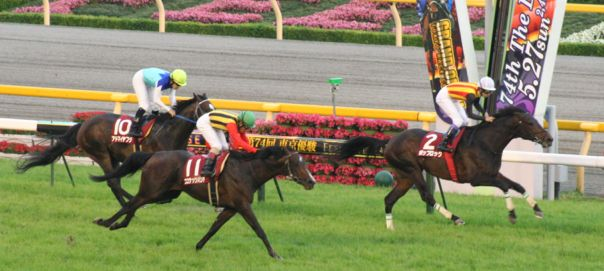 Meguro Kinen